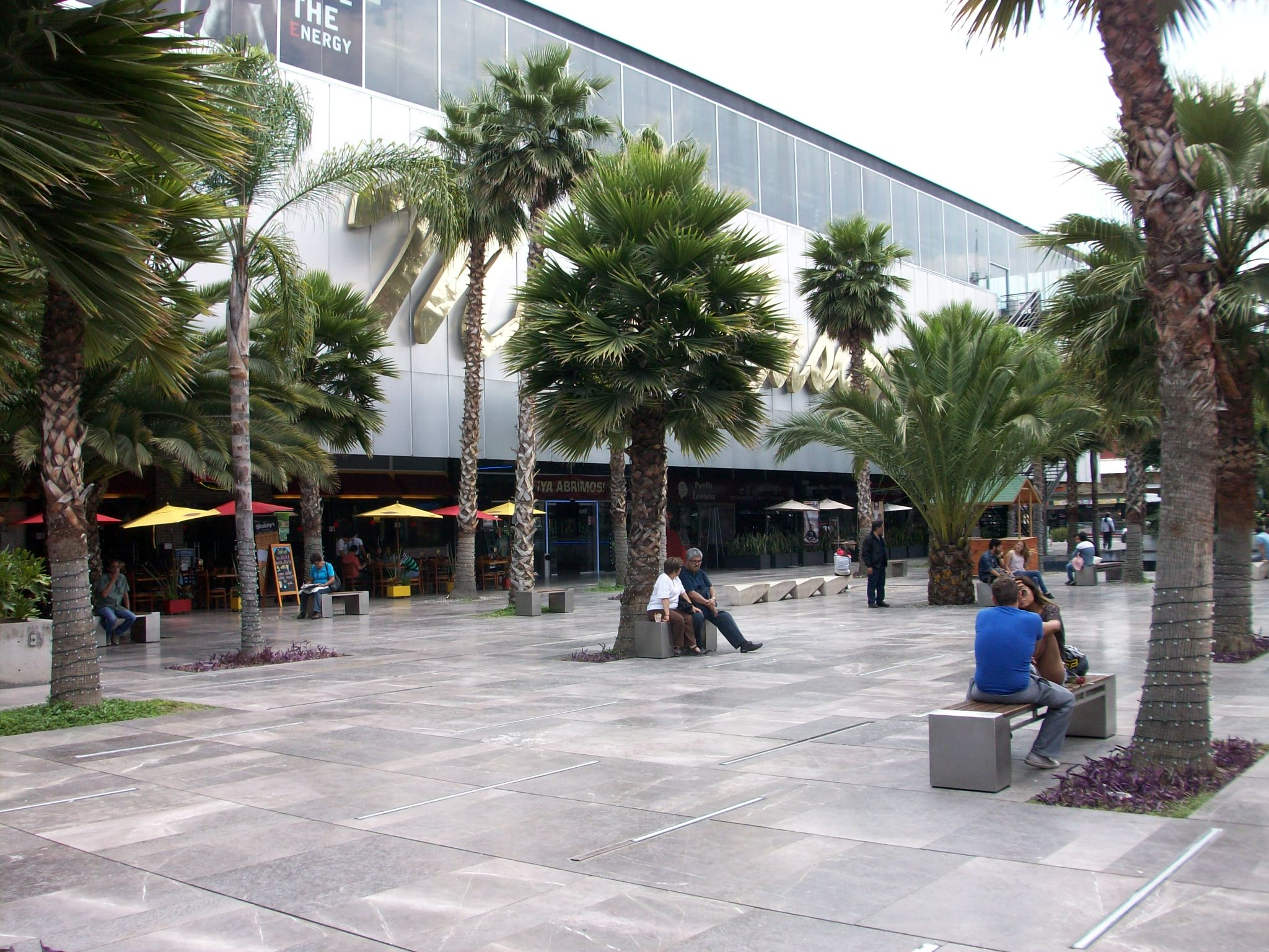 Zona de restaurantes.